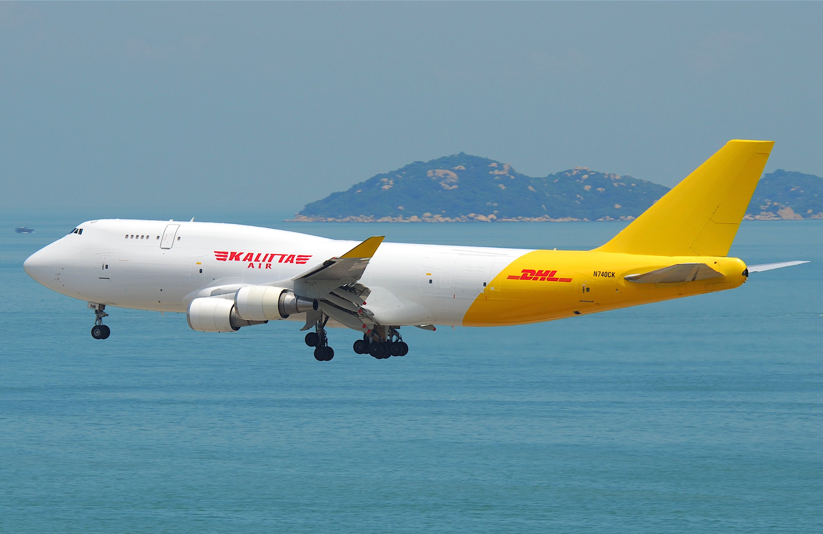 This Boeing 747-4H6's first flight : September 8, 1989... 06/10/1989 Malaysia Airlines 9M-MHM sold to Boeing as N73714 20/03/2008 Kalitta Air N73714 converted to freighter 29/05/2008 Kalitta Air N740CK